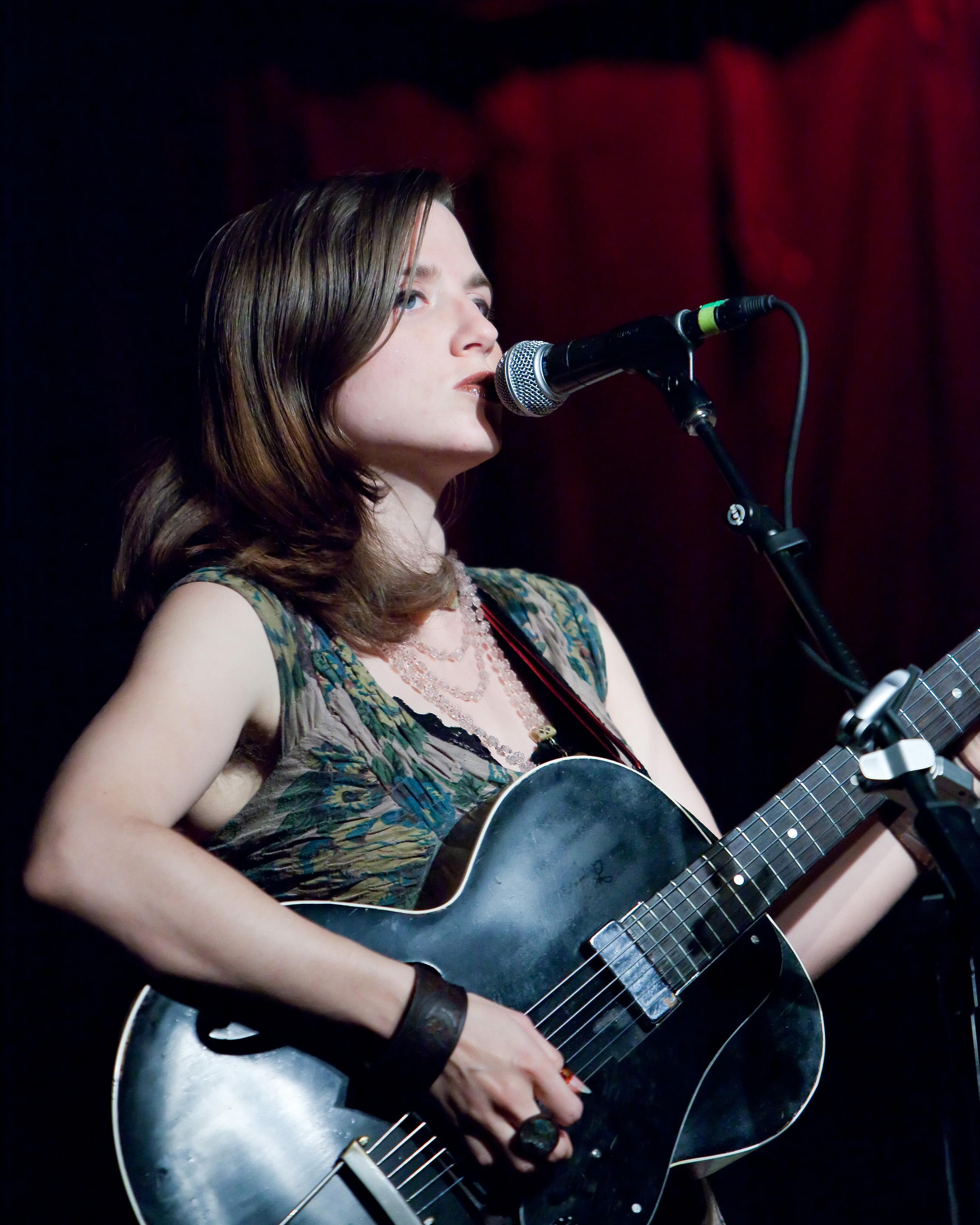 Jolie Holland with 1948 Epiphone Archtop Acoustic Guitar [1] High Noon Saloon, 13OCT09